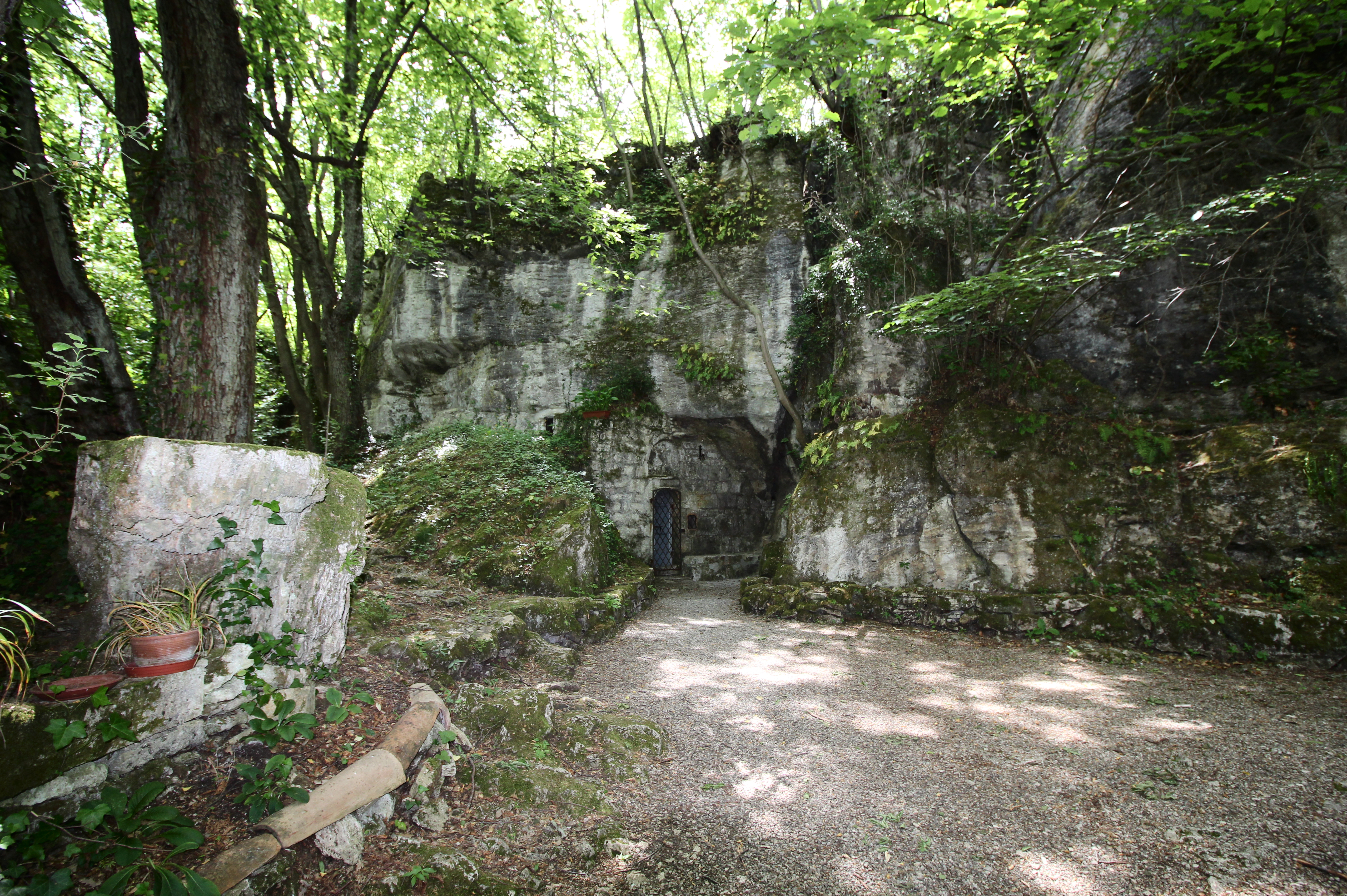 Oratory Grotta di San Filippo Benizi, Bagni San Filippo, hamlet of Castiglione d’Orcia, Province of Siena, Tuscany, Italy